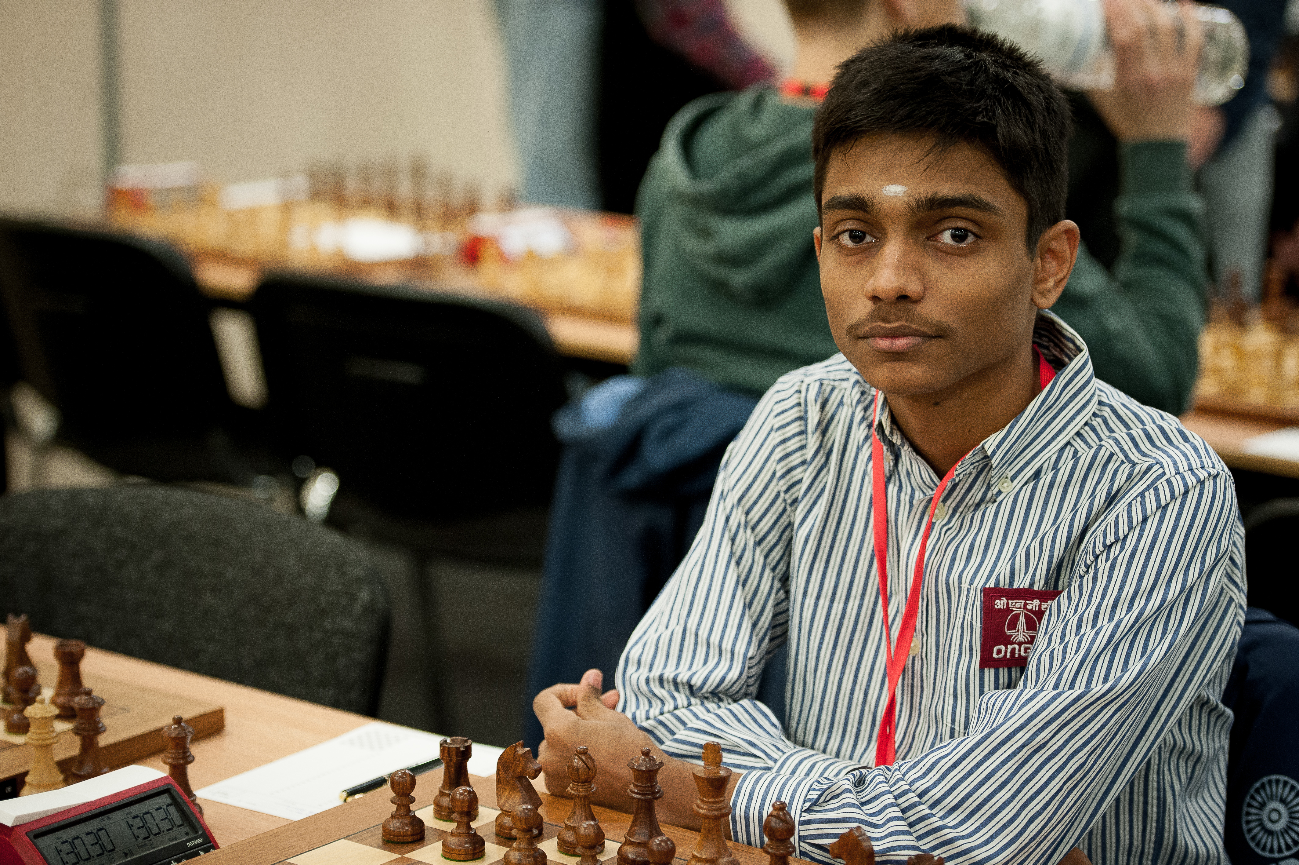 GM Chithambaram Aravindh